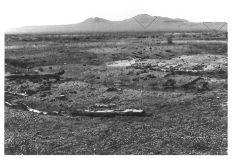 Looking south at the site of the former roundhouse in Terrace, Utah, with Terrace Mountain in the distance, about 1980